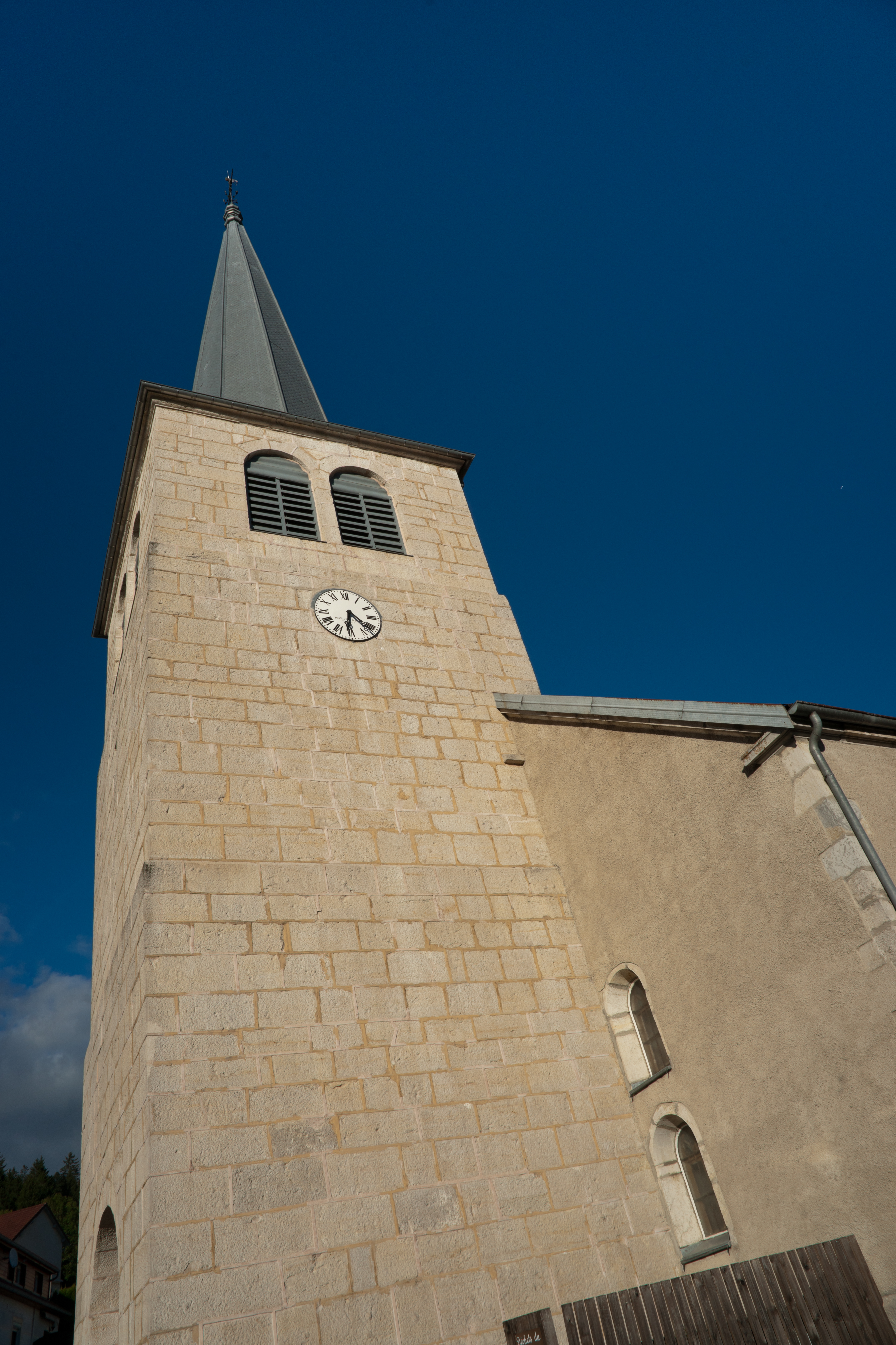 Church in Les Hôpitaux-Neufs, France.